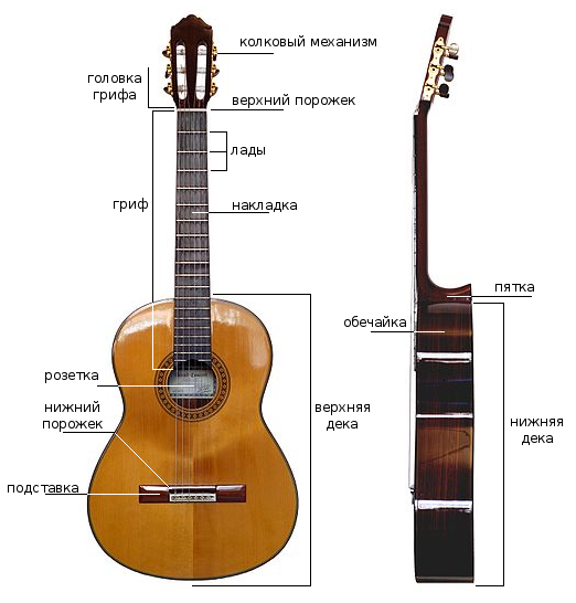 Classical Guitar, front and side view, labelled This image shows two views of a classical guitar. The main parts are labelled in Russian. Camera data 8 II Focal length: 50 mm